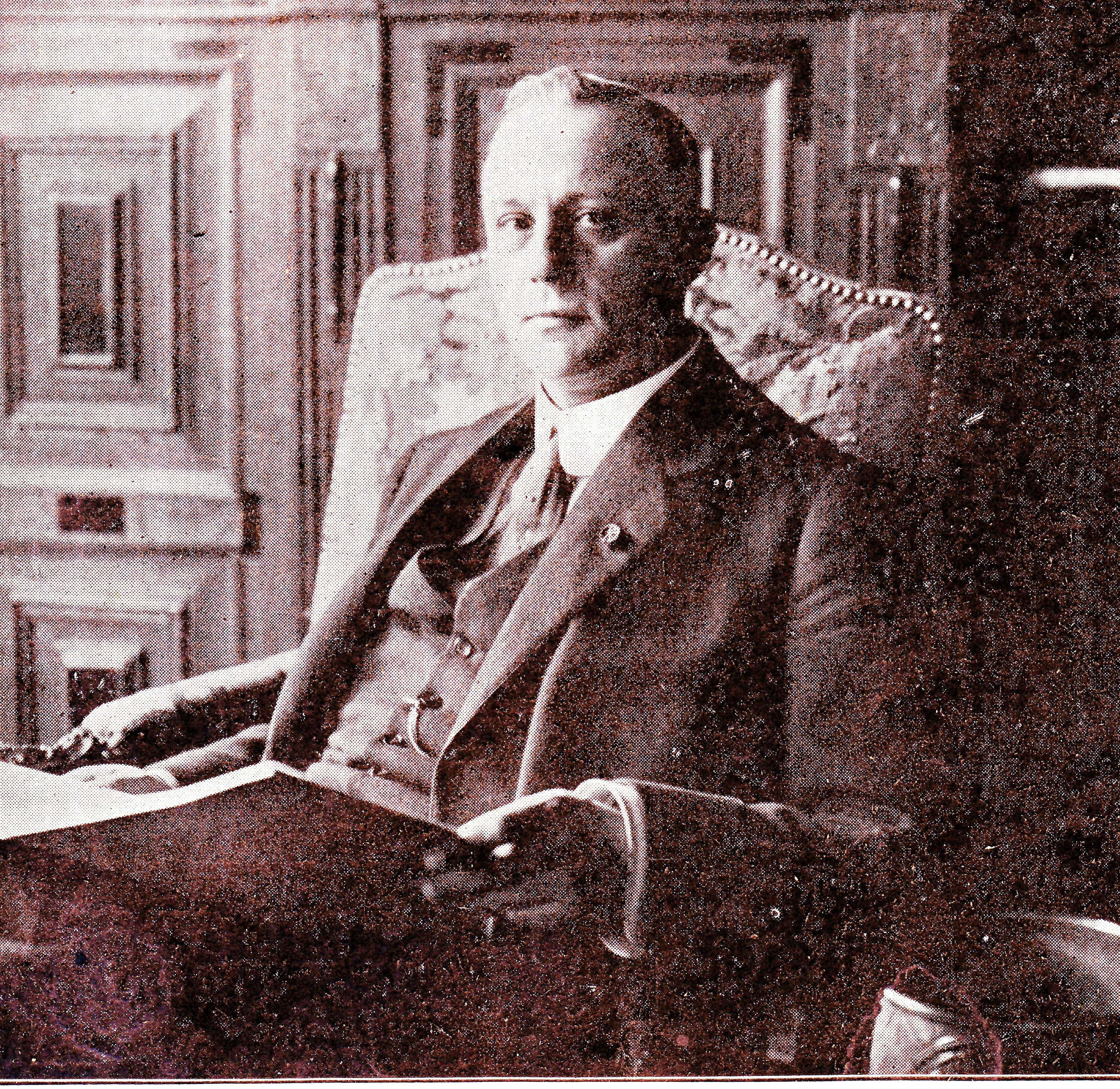 Jhr. Mr. Hubert van Asch van Wijck